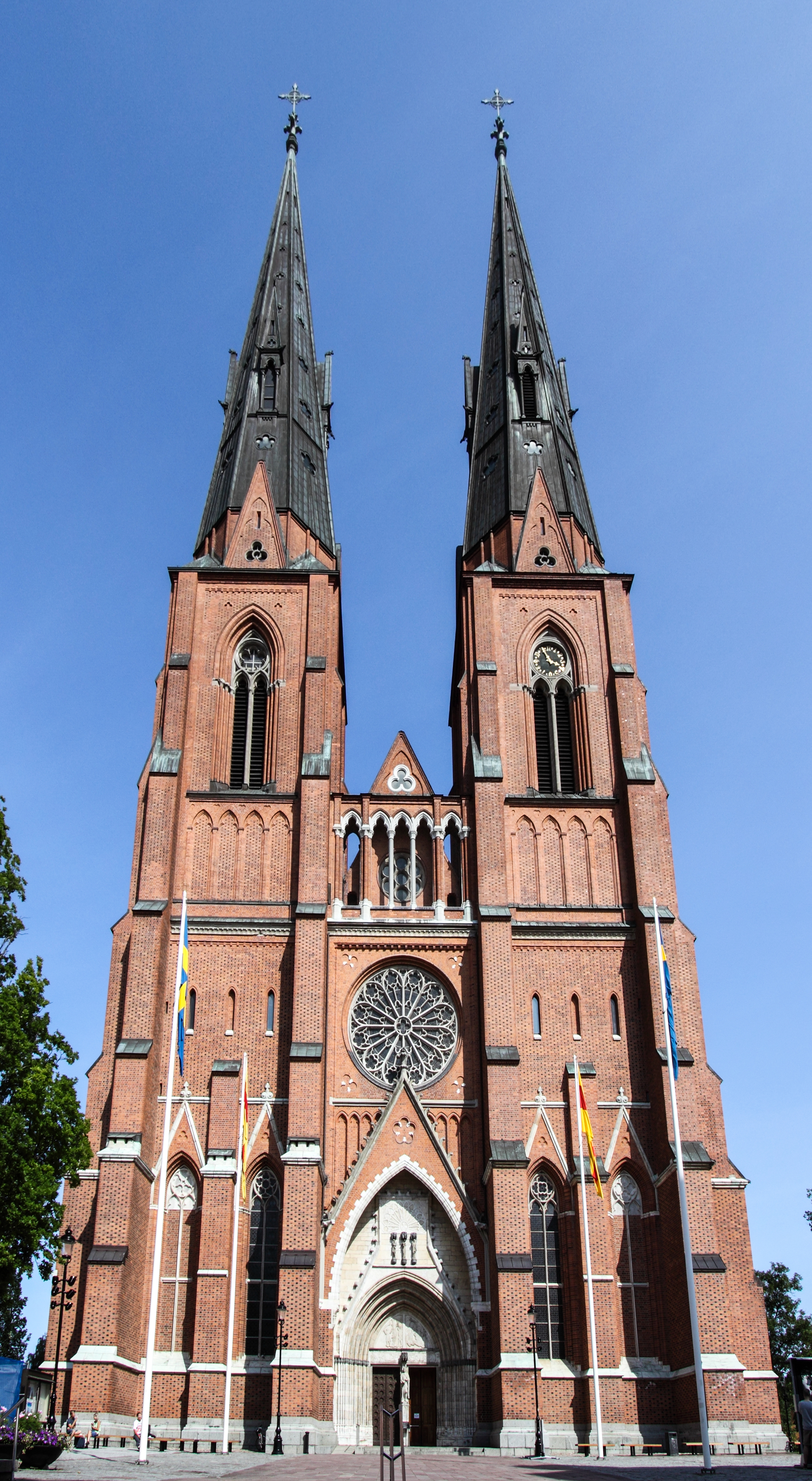 Uppsala Cathedral